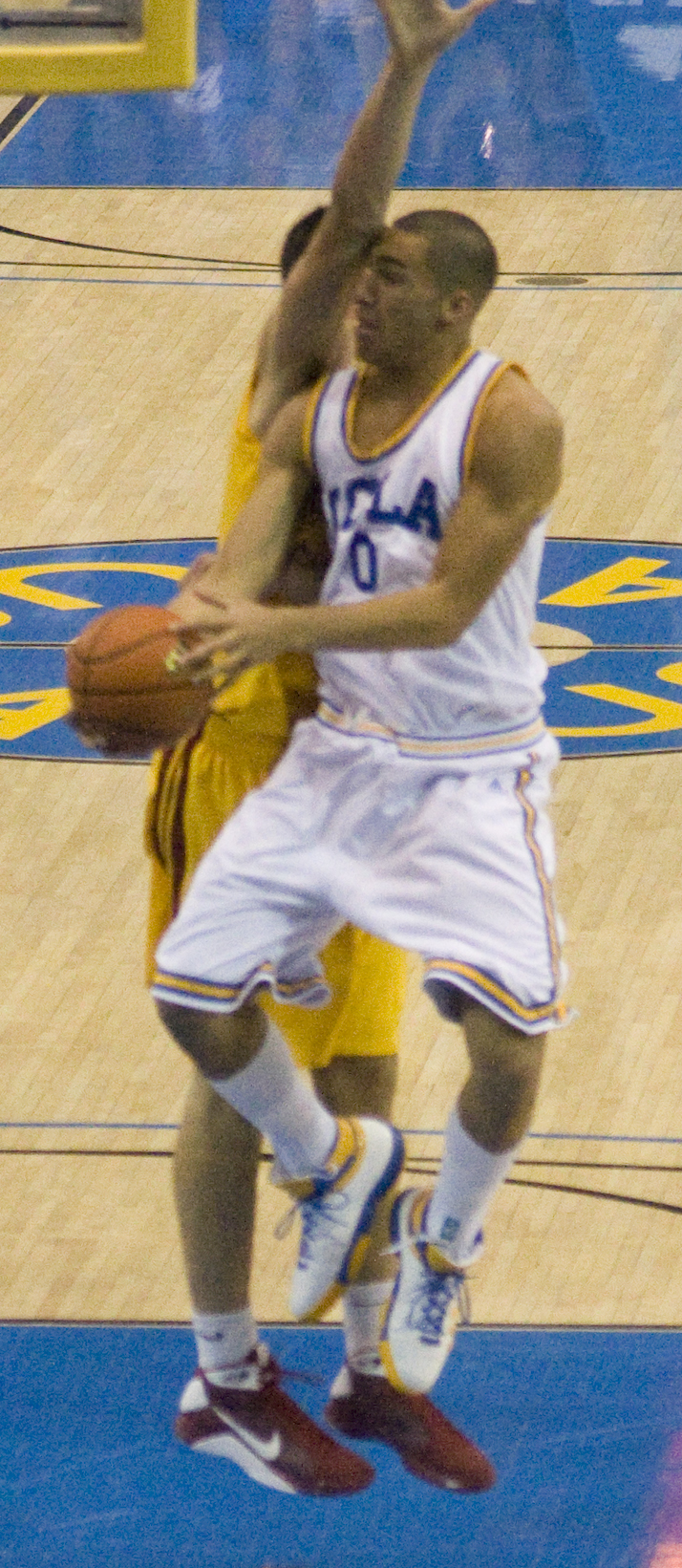 Drew Gordon of UCLA Bruins